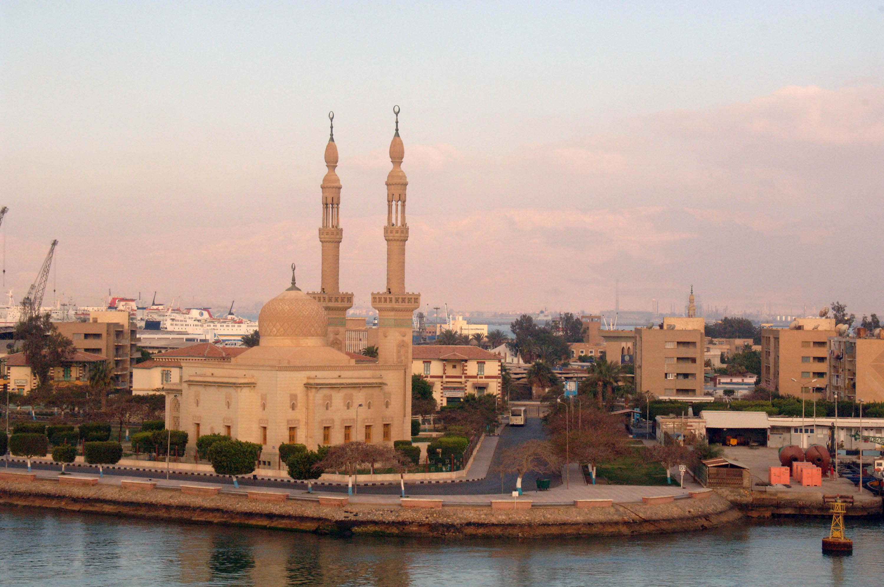 VIEW OF THE MOSQUE IN THE CITY OF SUEZ AT THE SOUTHERN TERMINUS OF THE SUEZ CANAL